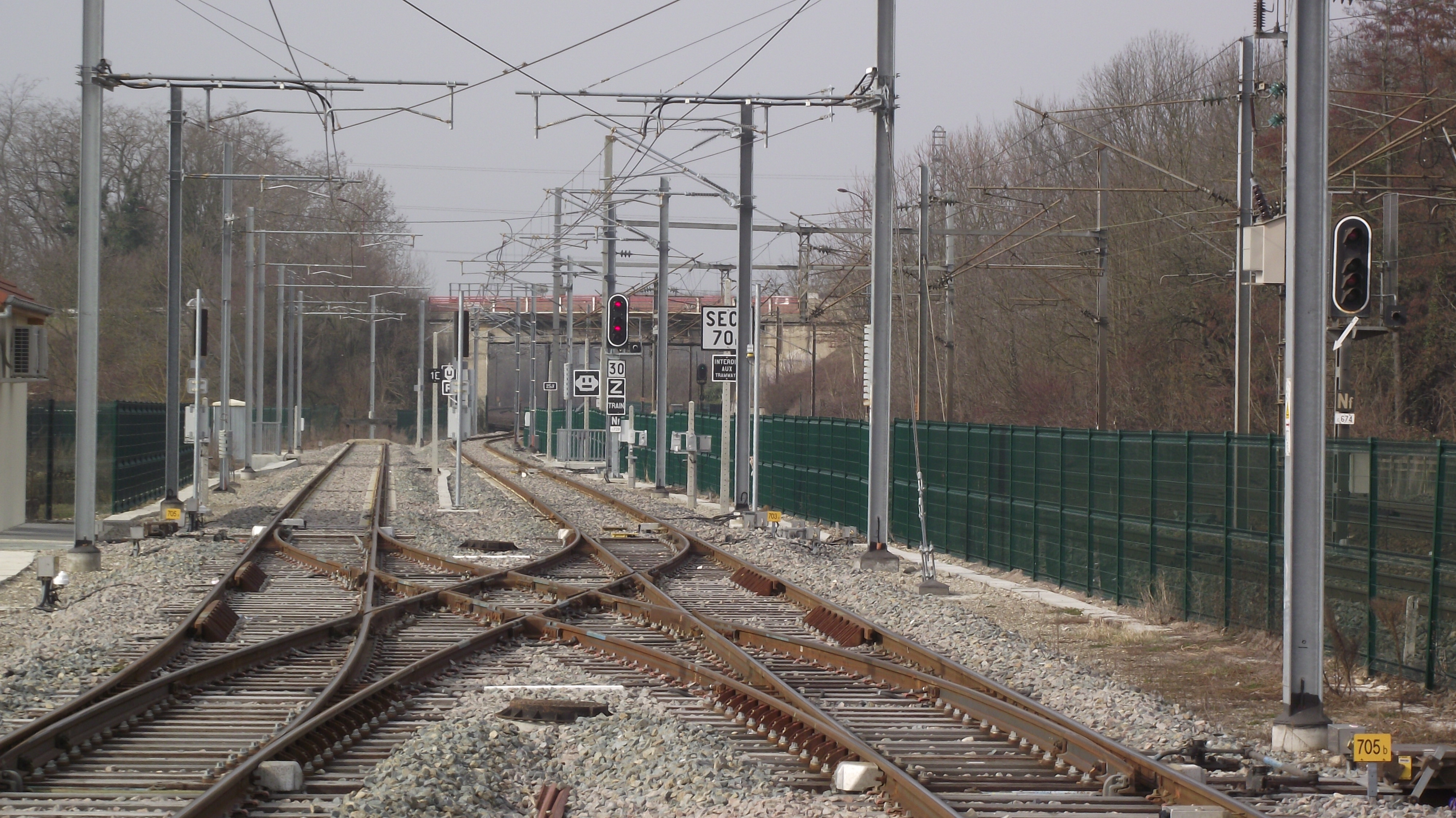 Change from tramway to railway by Lutterbach on the right track. From 750 V direct current to 25 kV alternating current. The track on the left is reverse trams. The tracks on the far right are the main railway line tracks.